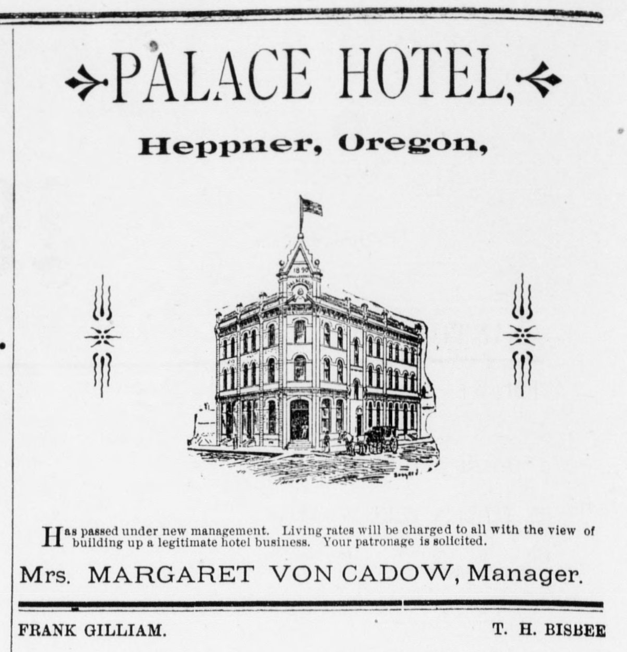 Advertisement for the Palace Hotel in Heppner Oregon. March 01, 1892.